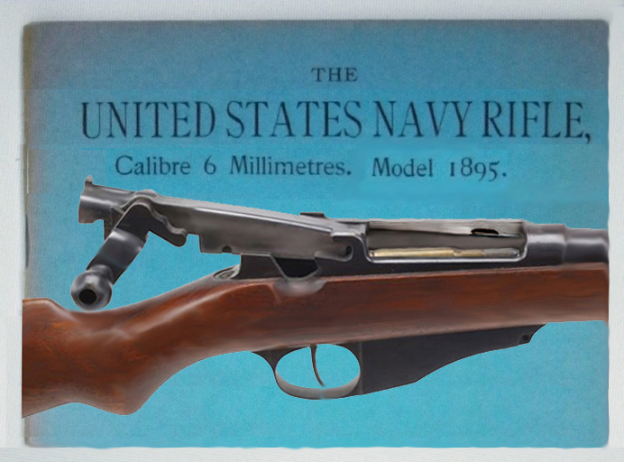 Rifle Lee Navy 95